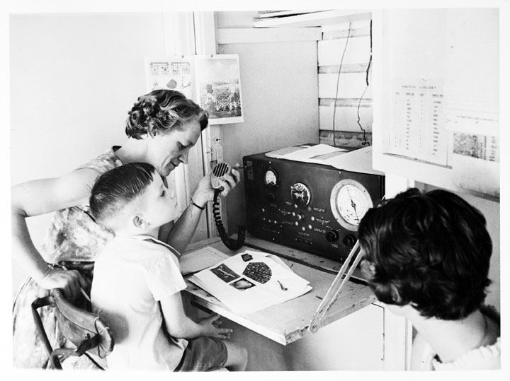 A School of the Air primary student in regional Queensland takes class via two way radio.